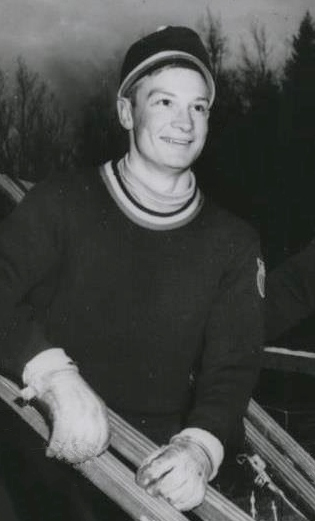 1954 Press Photo US skiers Billy Olsen, Keith Wegeman, Art Devlin at Lake Placid